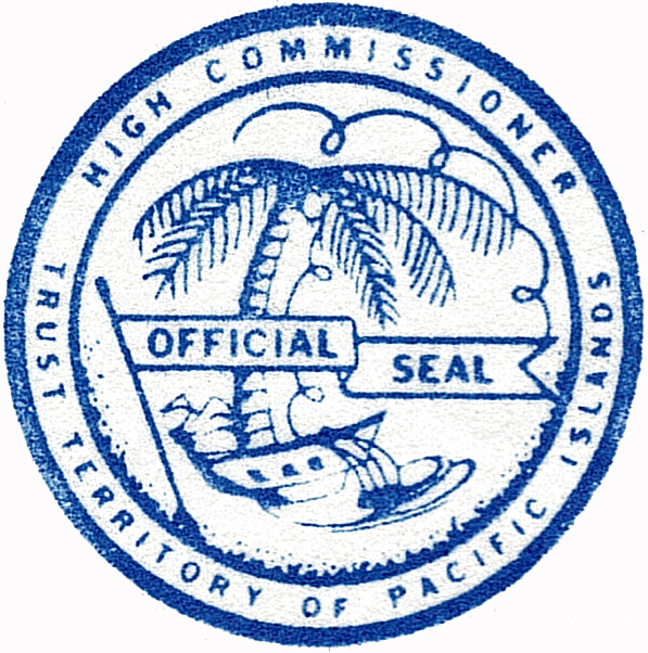 Trust Territory of the Pacific Islands seal (coat of arms)